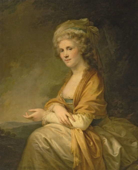 Portrait of Countess Yekaterina Stroganova, née Princess Trubetskaya, Wife of the Lord High Chamberlain Prince Alexander Stroganov